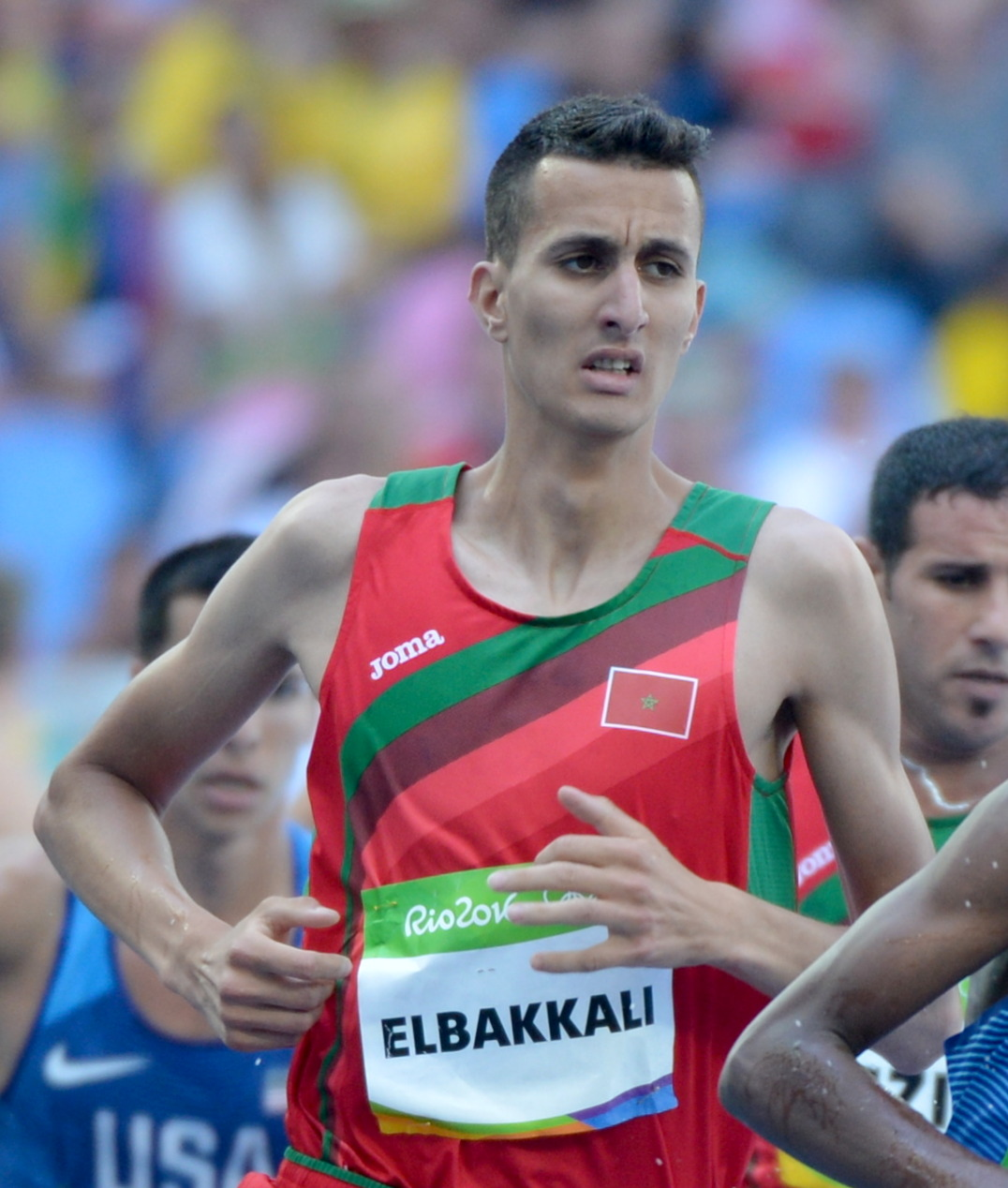 Soufiane El Bakkali in the men's 3,000-meter steeplechase on Aug. 17 at the 2016 Rio Olympic Games in Rio de Janeiro. U.S. Army photo by Tim Hipps, IMCOM Public Affairs #SoldierOlympians #ArmyOlympians #ArmyTeam #GoArmy #TeamUSA #ArmyStrong #RoadToRio